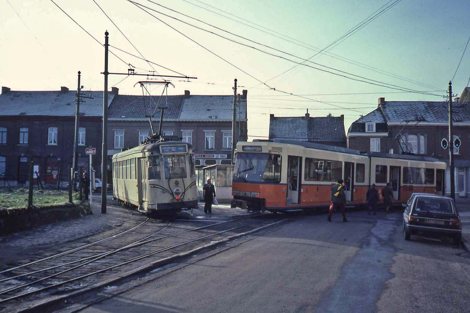 Interchange between old and new trams in Anderlues.